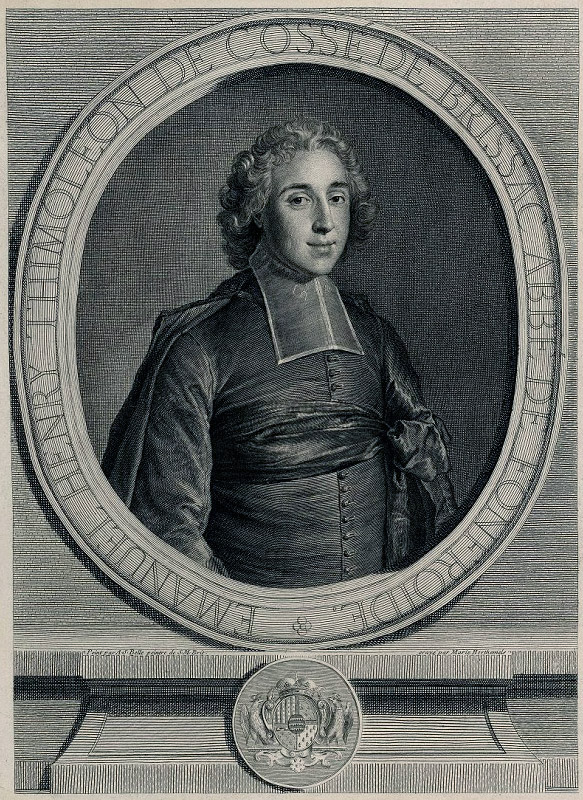 Portrait of Cossé Brissac form the Frencj Abbey of Fontfroide